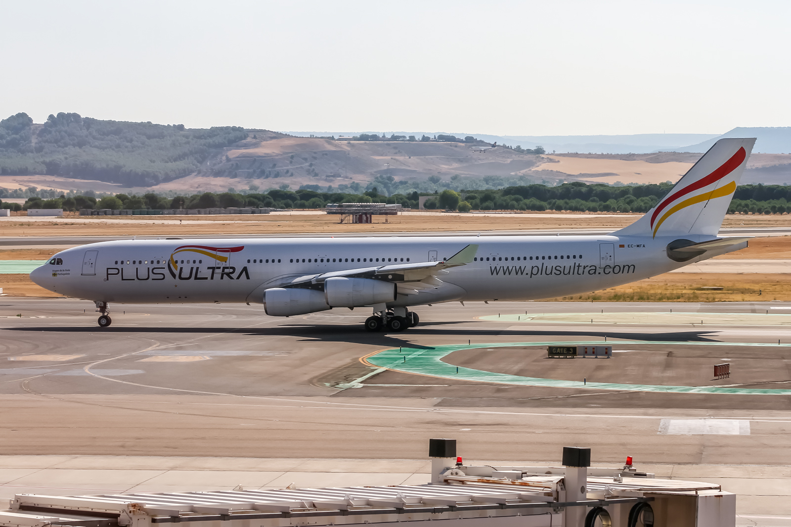 EC-MFA Plus Ultra Airbus A340-313 departing to Buenos Aires-Ezeiza (SAEZ) @ Madrid - Barajas (LEMD) / 22.08.2015